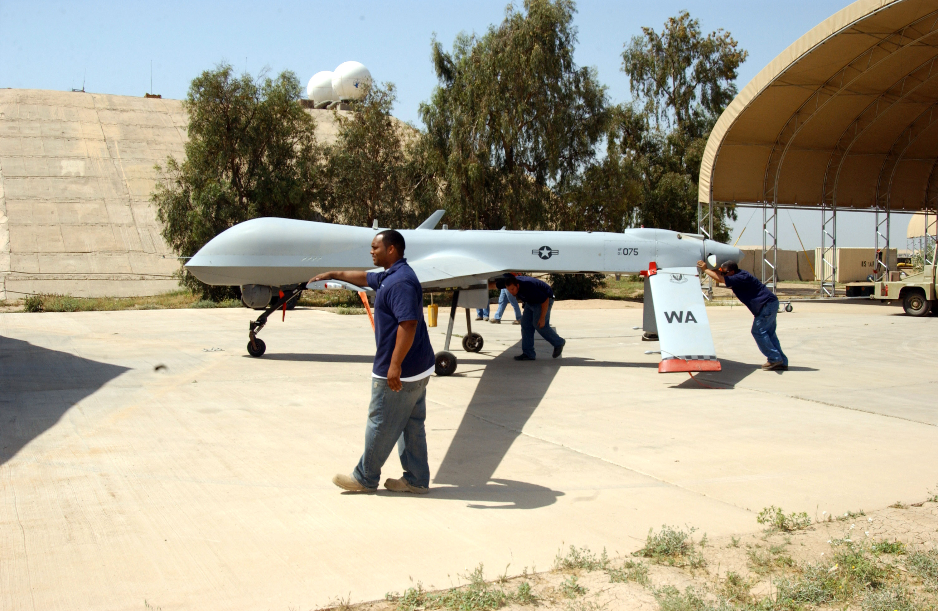 Predator maintenance team is 'total force'. Contract maintainers walk an RQ-1 Predator unmanned aerial vehicle into a shelter. They are assigned to the 46th Expeditionary Aircraft Maintenance Unit at Balad Air Base, Iraq.